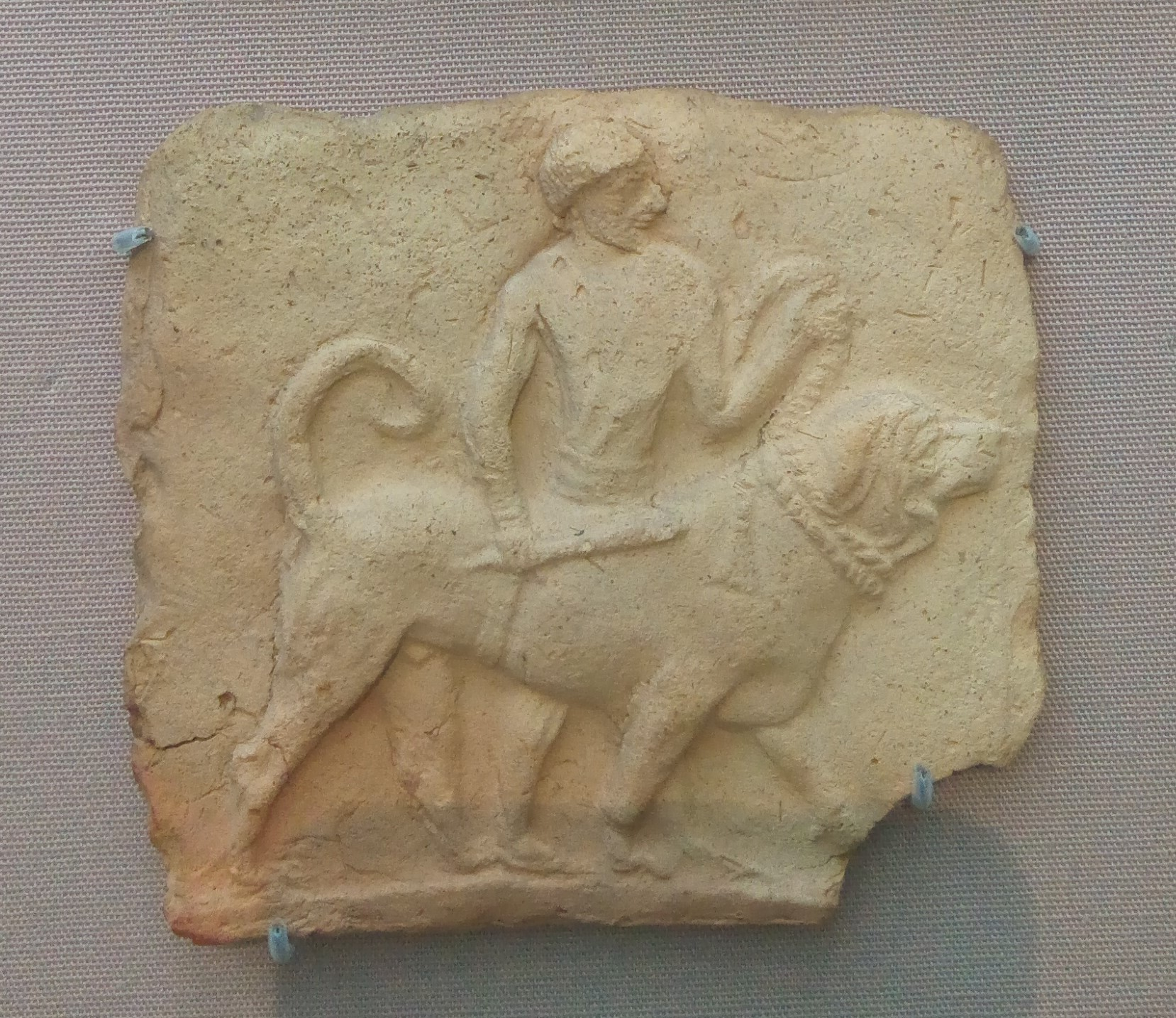 Baked-clay plaque : a man leading a dog. Borsippa, Old Babylonian Period. ME 91911.